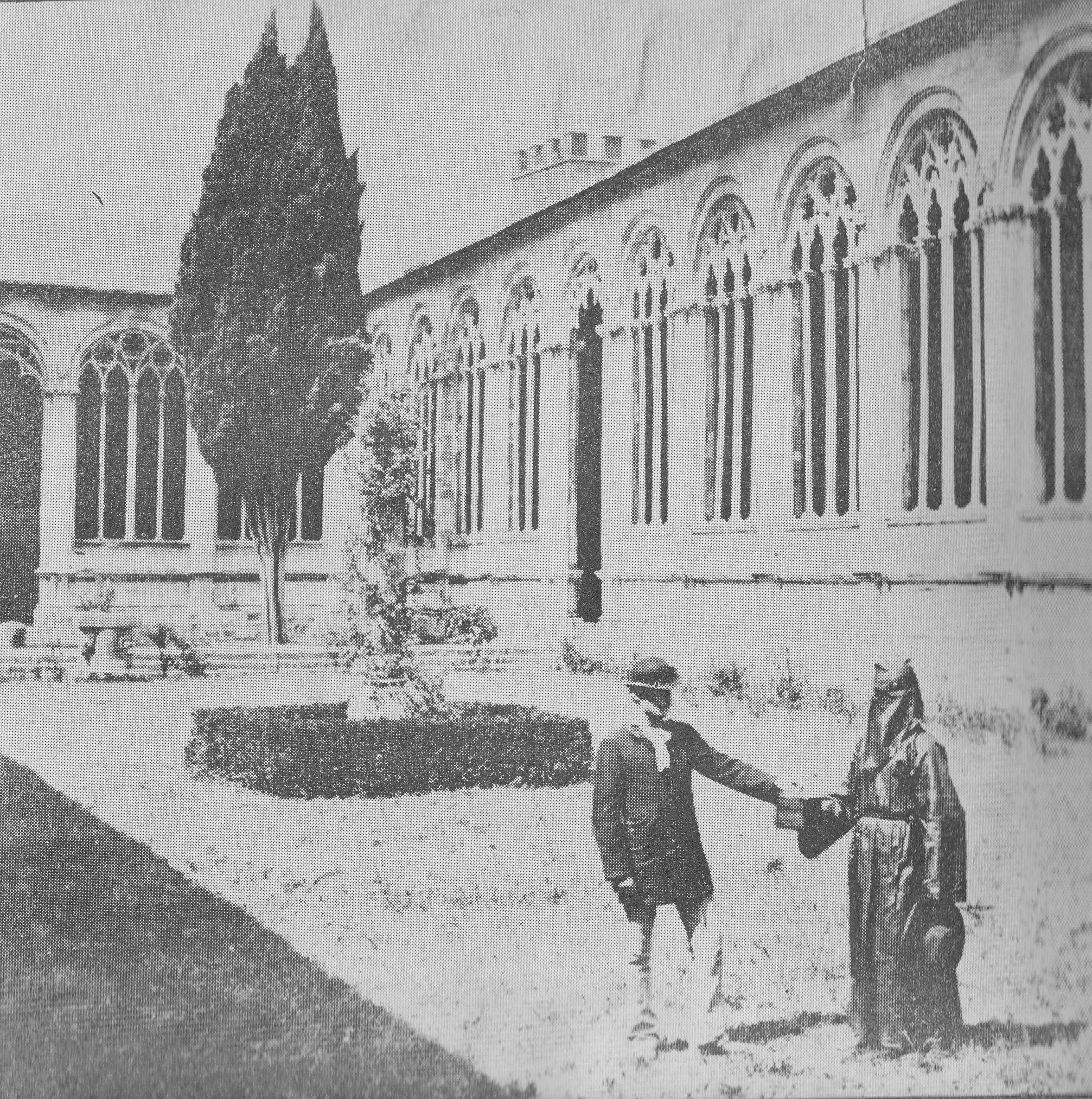 A citizen and a Misericordia brother in Camposanto, Pisa, Tuscany, Italy.